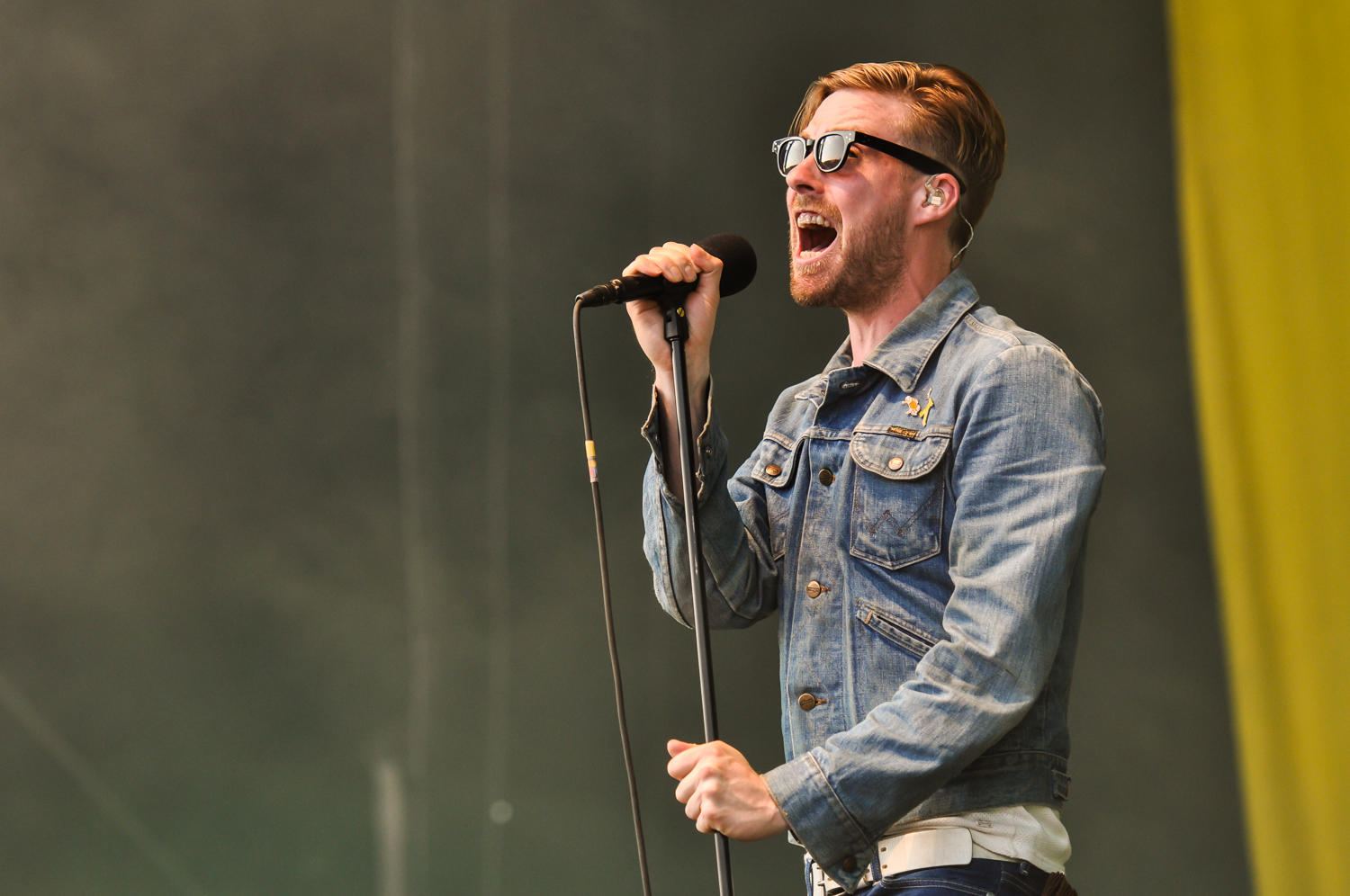 Kaiser Chiefs performing at Greenville Festival 2013